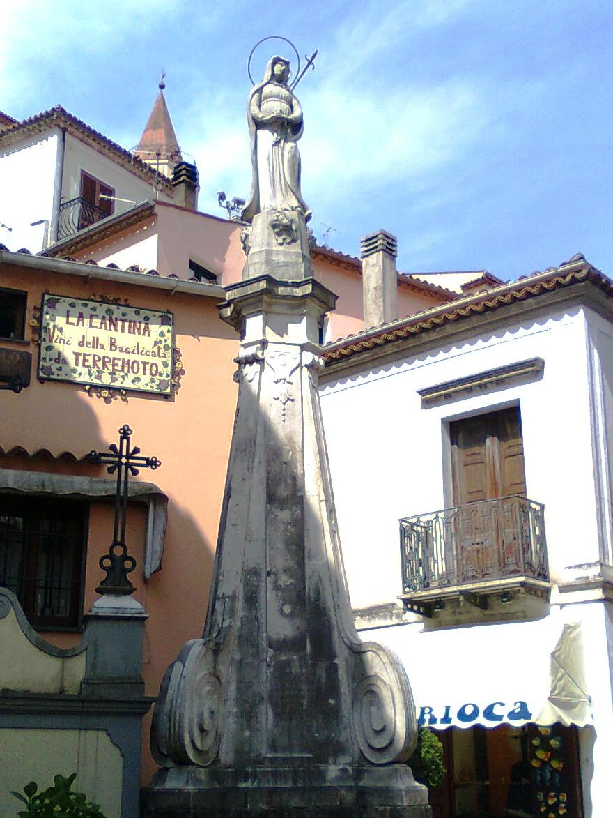 Monument to Our Lady of Sorrows in Maratea.